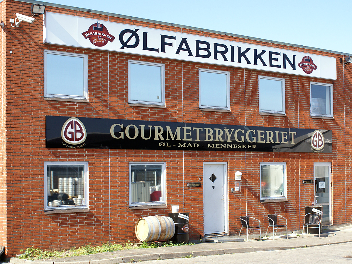 The microbreweries GourmetBryggeriet and Ølfabrikken in Roskilde, Denmark